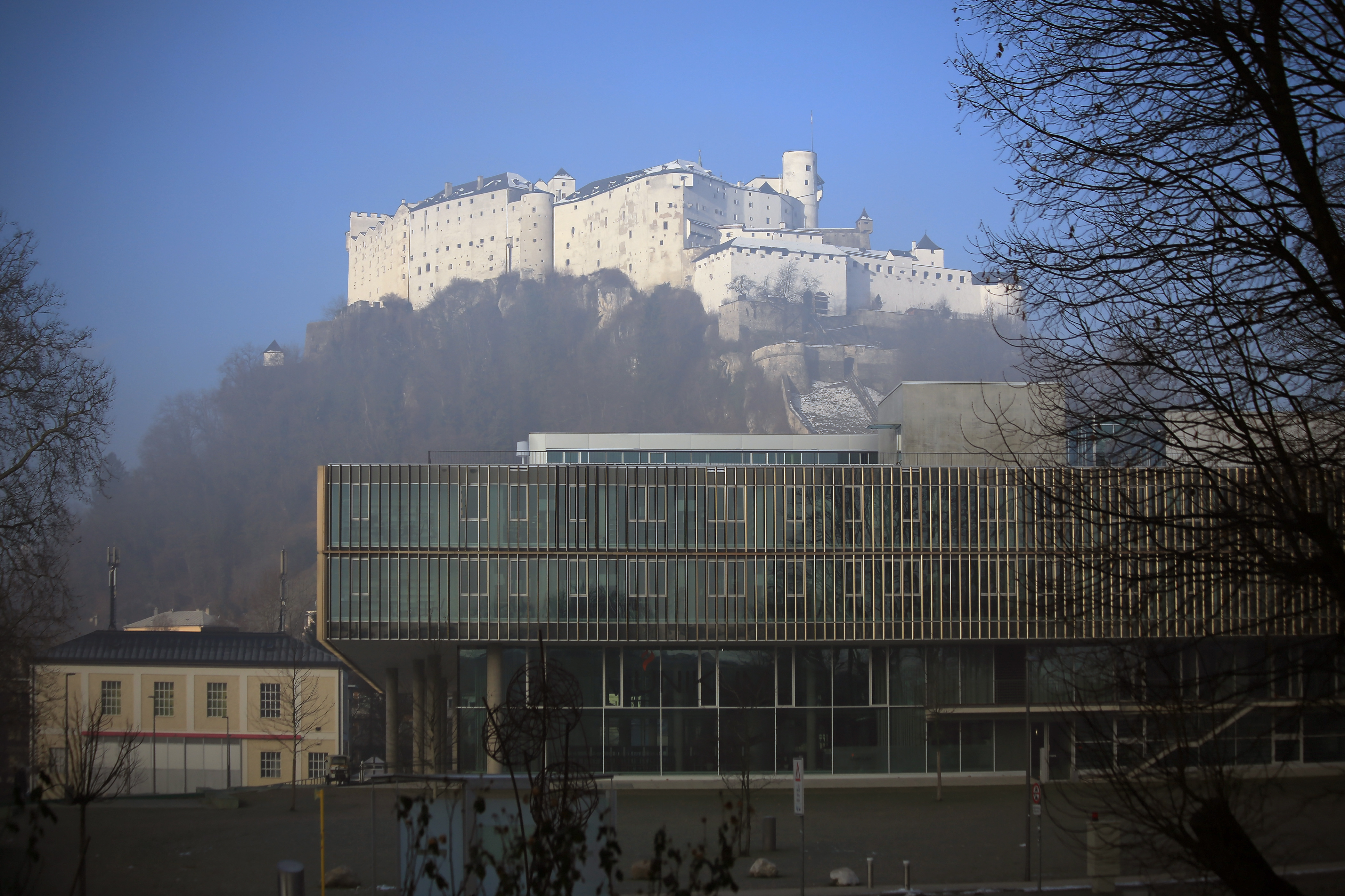 Unipark Nonntal of the University of Salzburg in the foreground, Hohensalzburg Castle hidden in the morning fog, Salzburg, Austria.